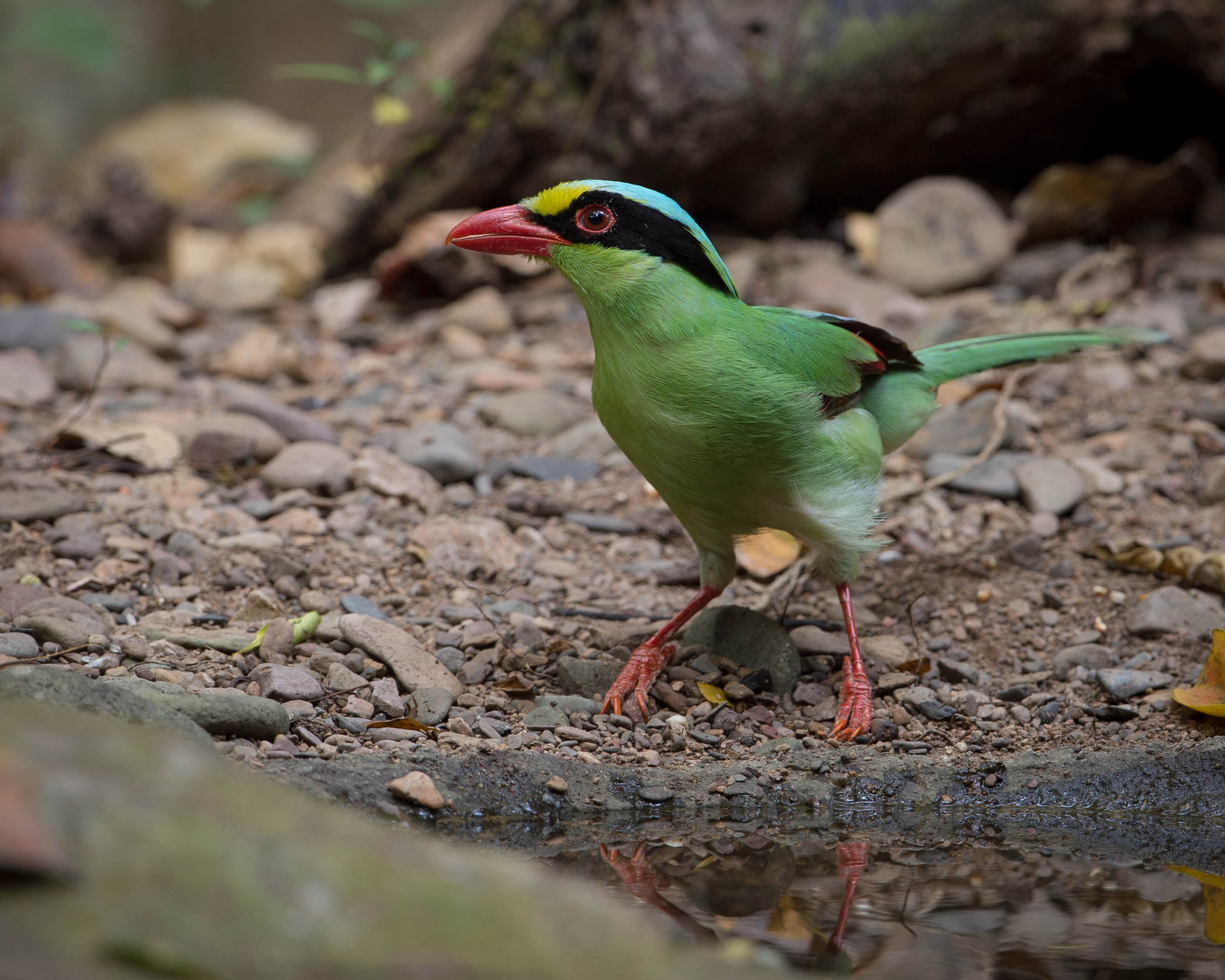 Common Green Magpie Cissa chinensis chinensis, Nueng Hide, Kaeng Krachan National Park, Thailand